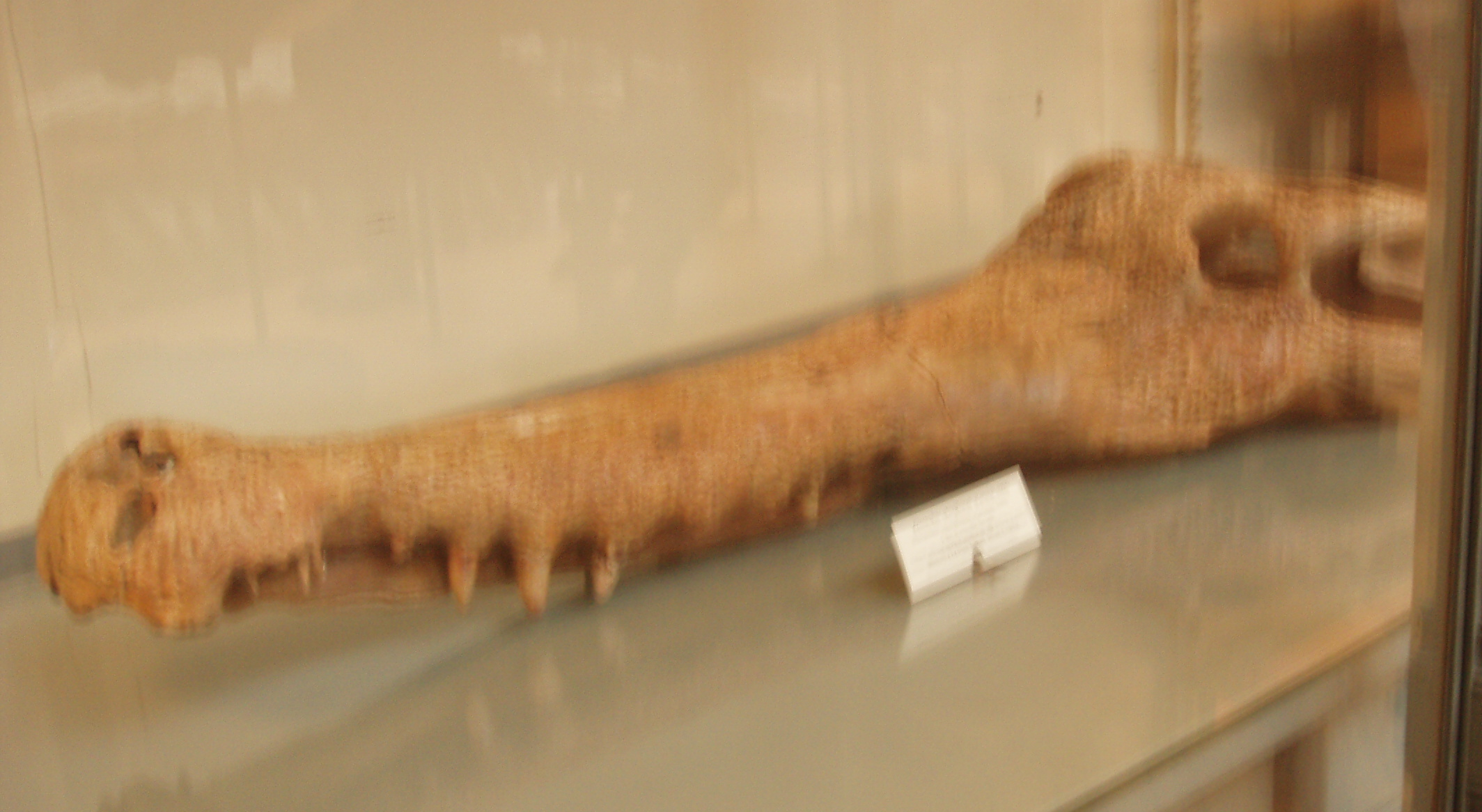 Skull of Elosuchus cherifiensis, an early Cretaceous croc from Algeria